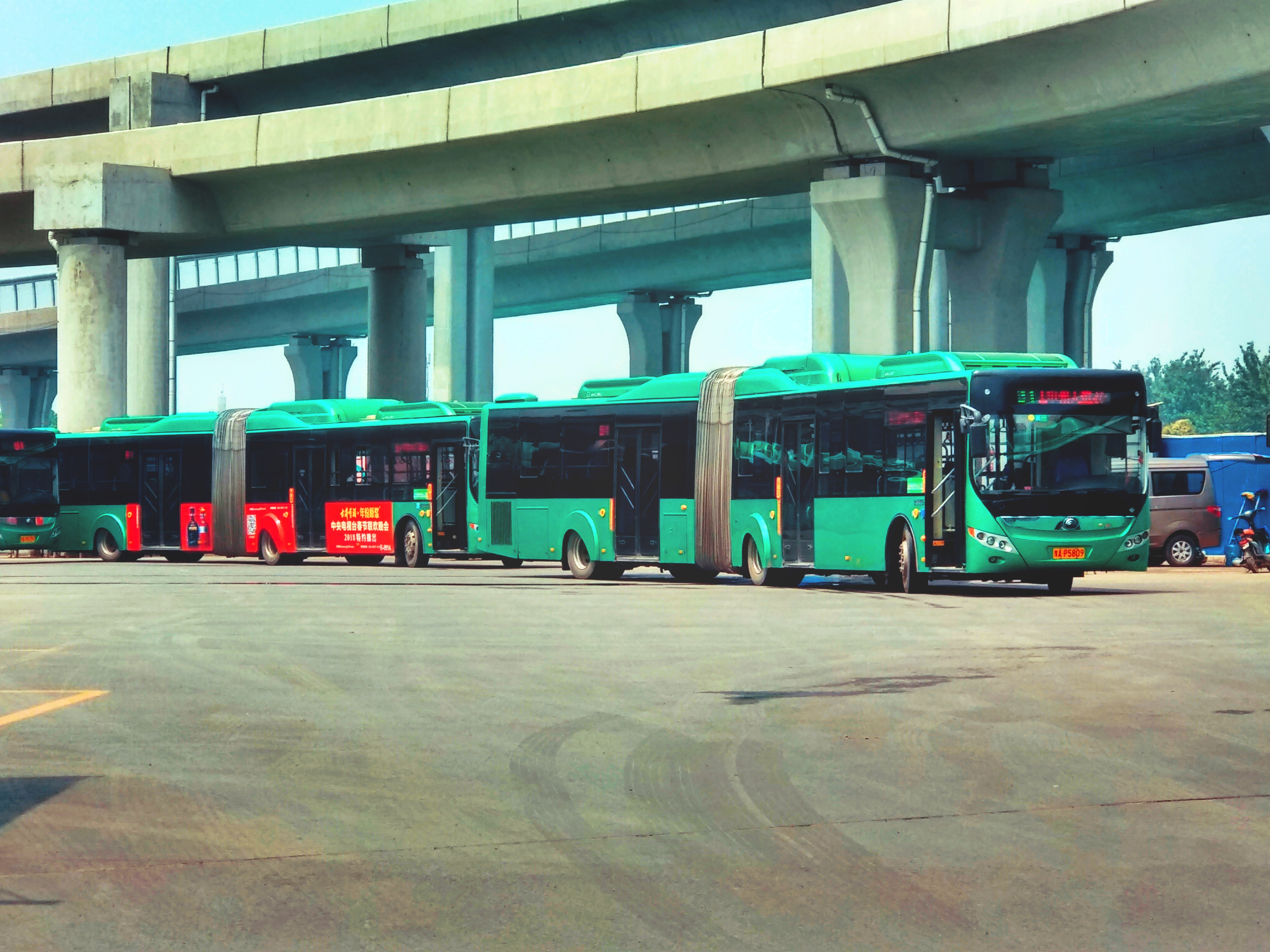 A member of Zhengzhou Bus Route B1. Waiting for departure...